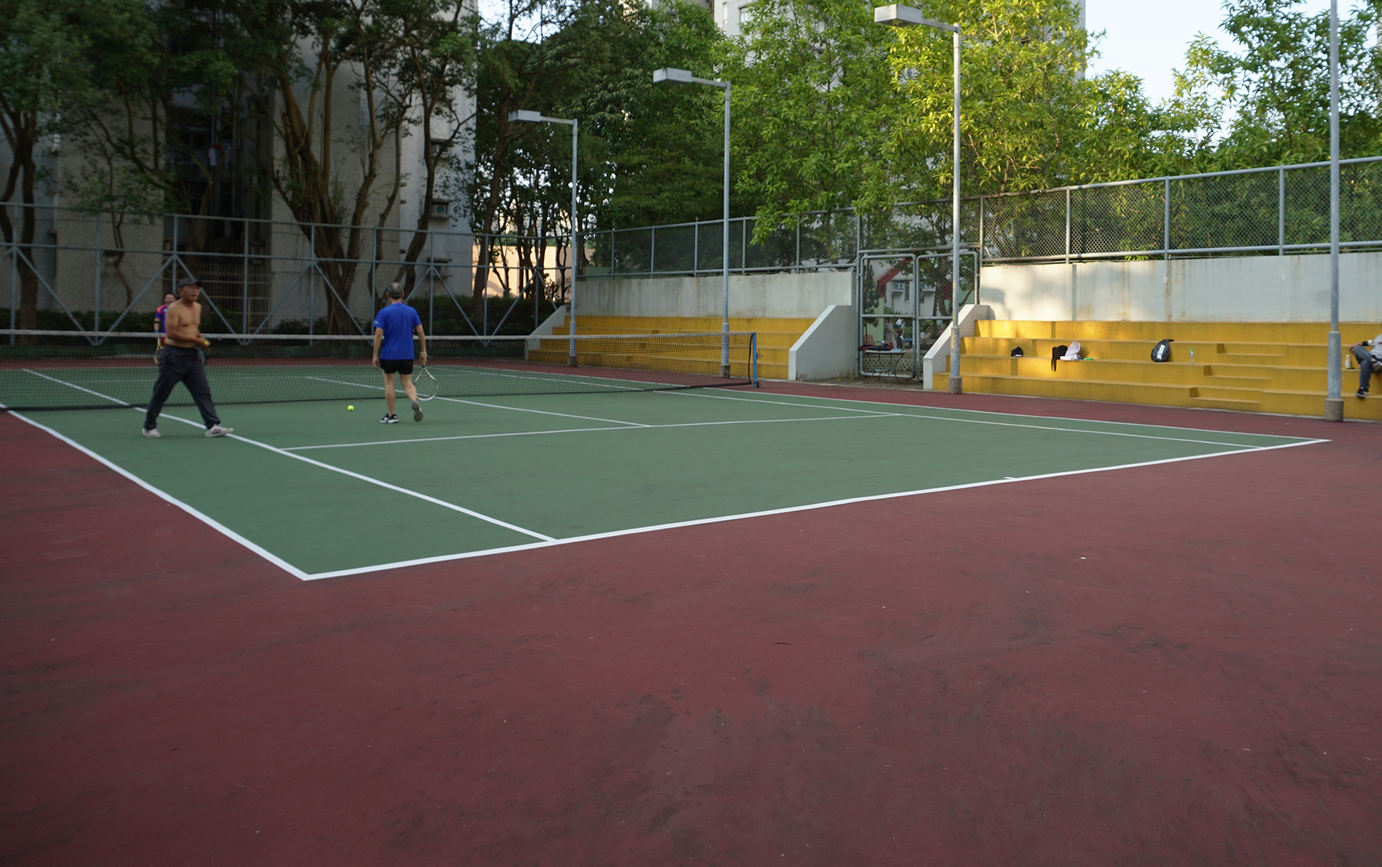 Chevalier Garden in Tai Shui Hang, Hong Kong.